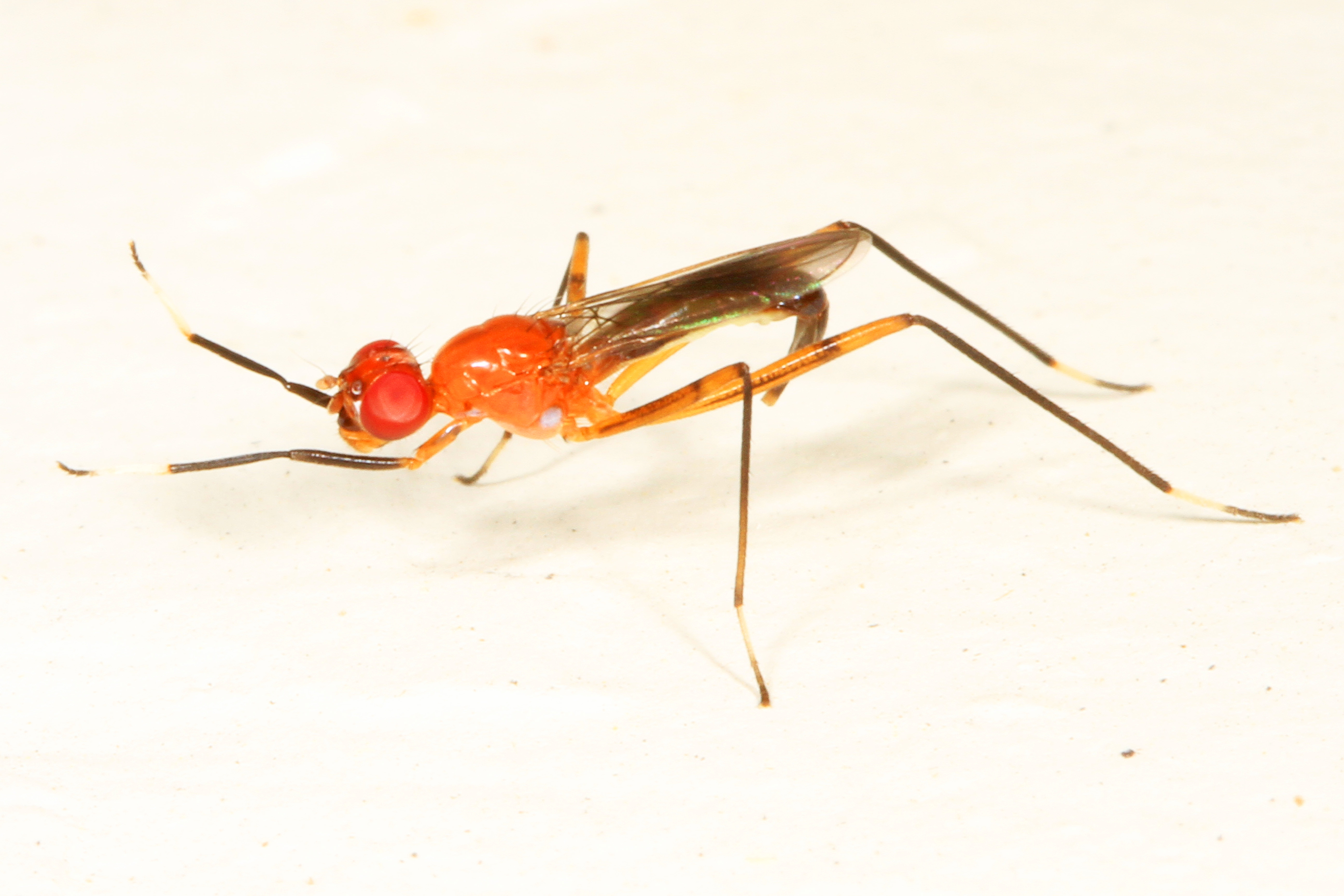 Stilt-legged Fly - Grallipeza nebulosa, Long Pine Key, Everglades National Park, Homestead, Florida